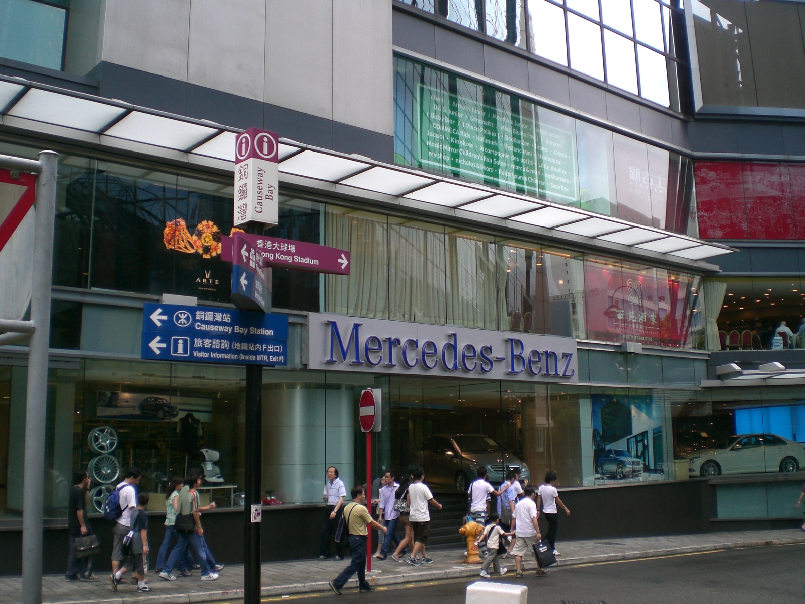 銅鑼灣, Causeway Bay Author= Kwanyatsw